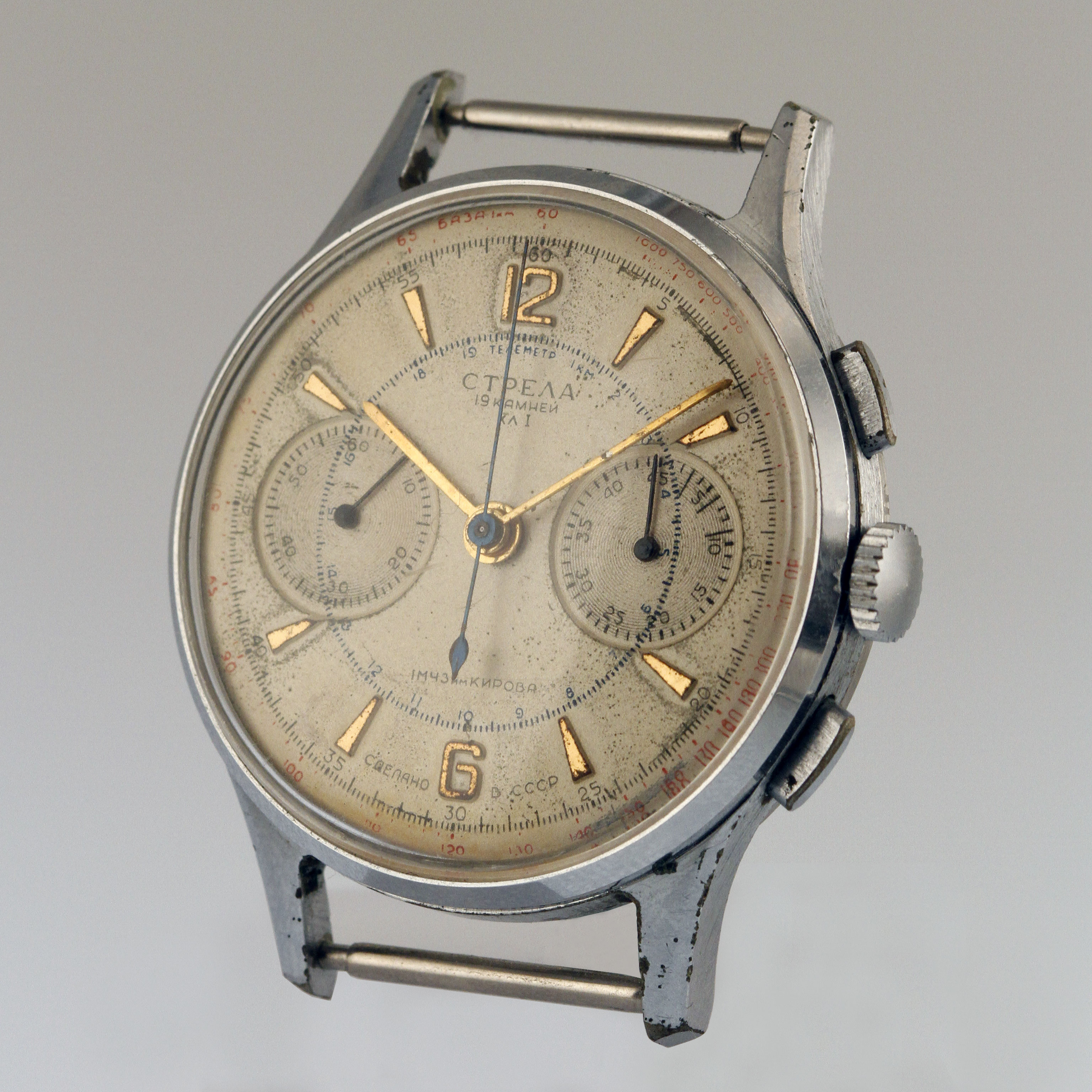 Strela chronograph